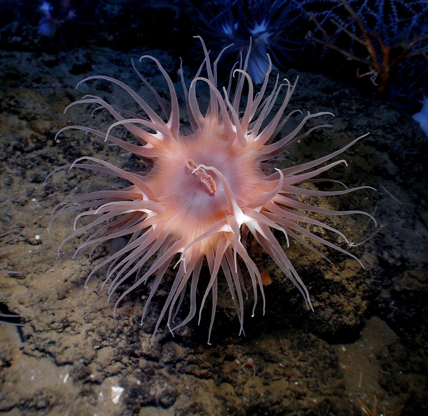 Actinostola sp. in the Gulf of Mexico This is a retouched picture, which means that it has been digitally altered from its original version. Modifications: Cropped. The original can be viewed here: Actinostola.jpg: . Modifications made by IdLoveOne.